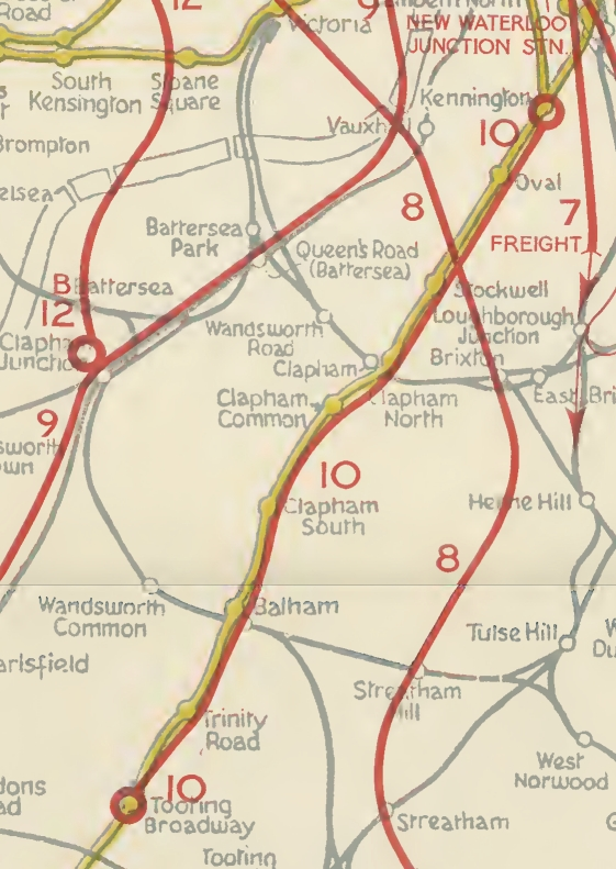 Extract from Map 2 from report, showing proposed new rail Route 10 (duplicate tube line from Tooting Broadway to Kennington)